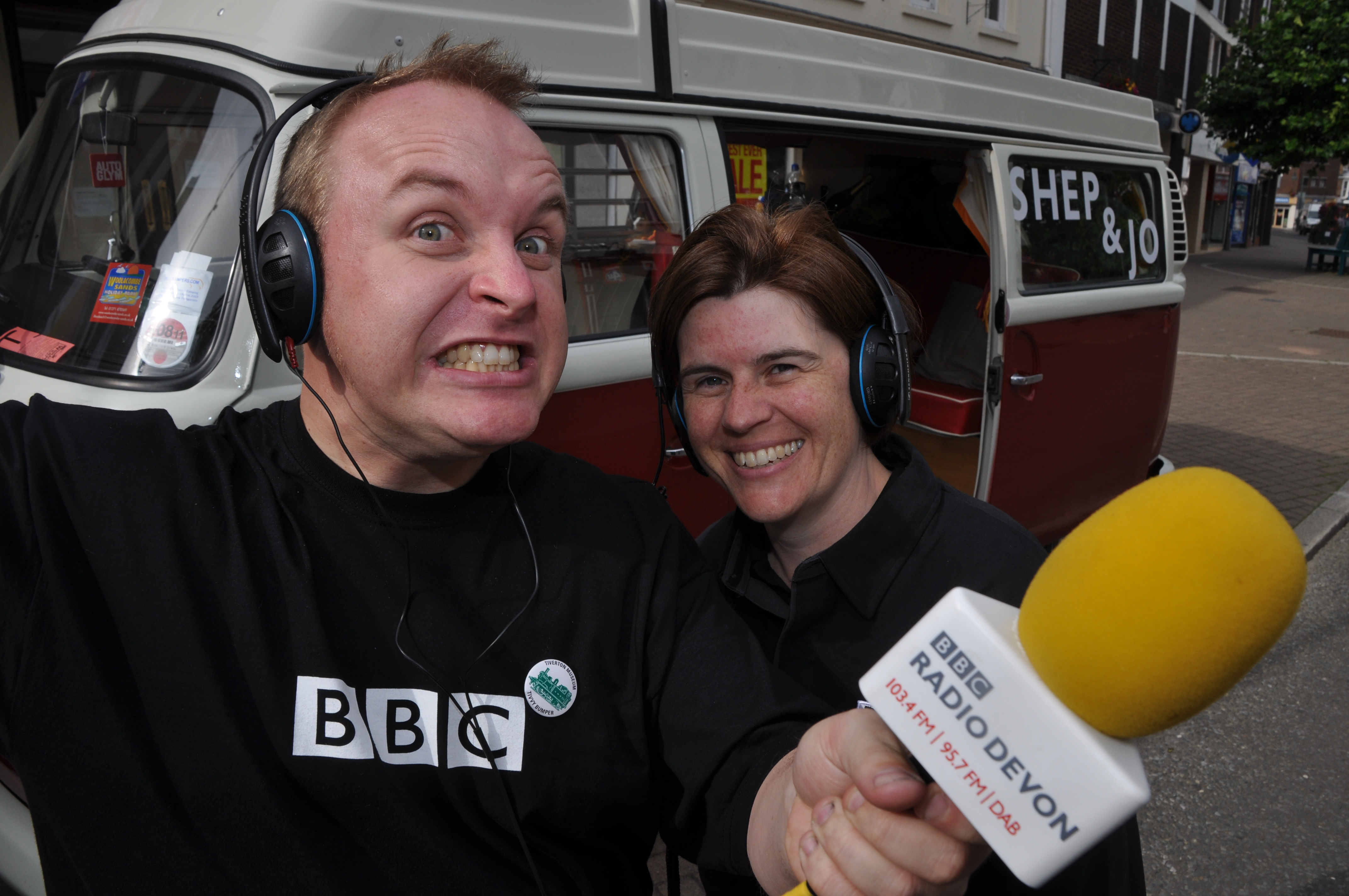 David Sheppard and Jo Loosemore presenting BBC Radio Devon's Shep & Jo Show